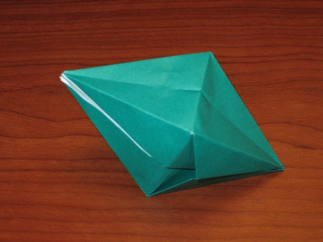 An octohedral paper water bomb.